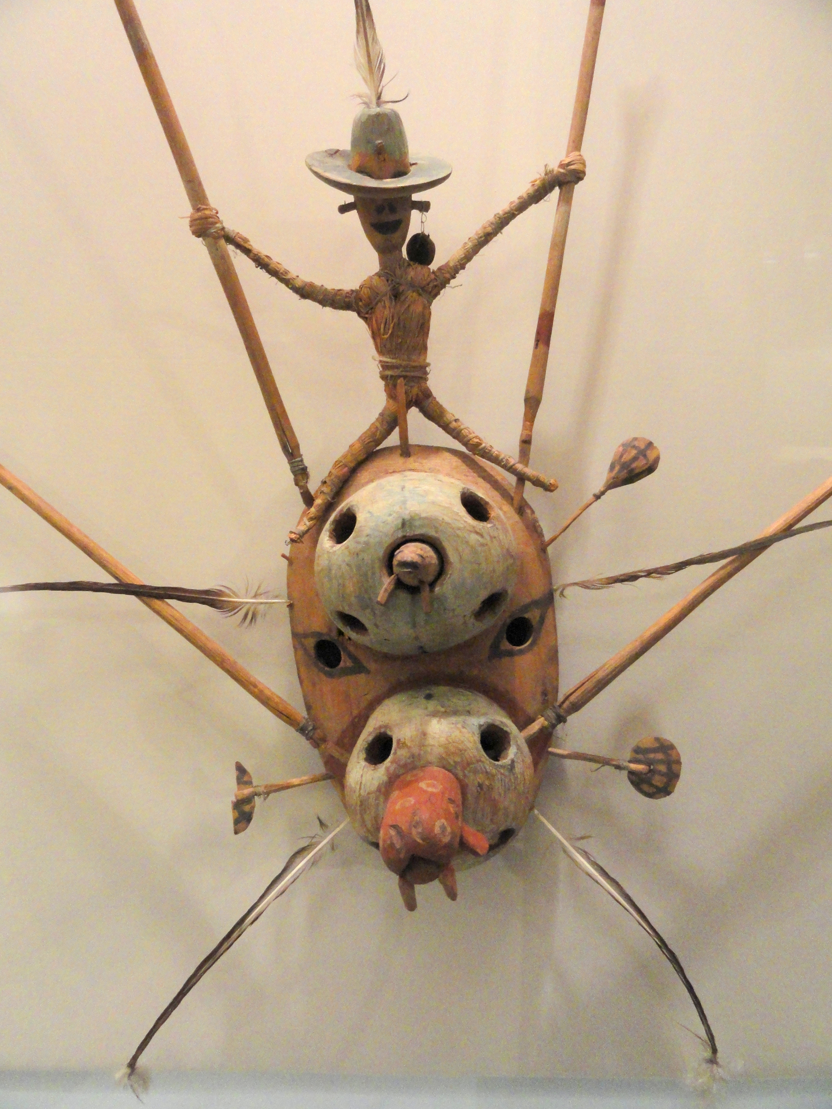 Dance mask of tunghat, Southwest Alaska Eskimo, collected in Kushunuk in 1905. Exhibit from the Native American Collection, Peabody Museum, Harvard University, Cambridge, Massachusetts, USA. Photography was permitted without restriction; exhibit is old enough so that it is in the public domain.